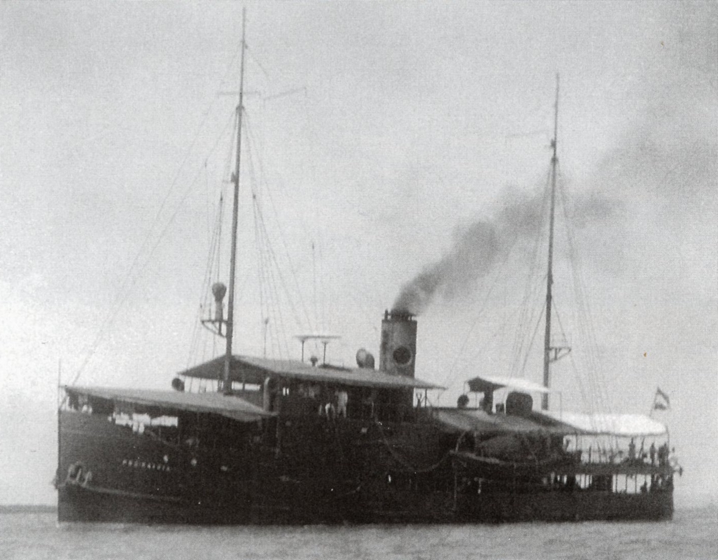 The Dutch minelayer Pro Patria during the interbellum